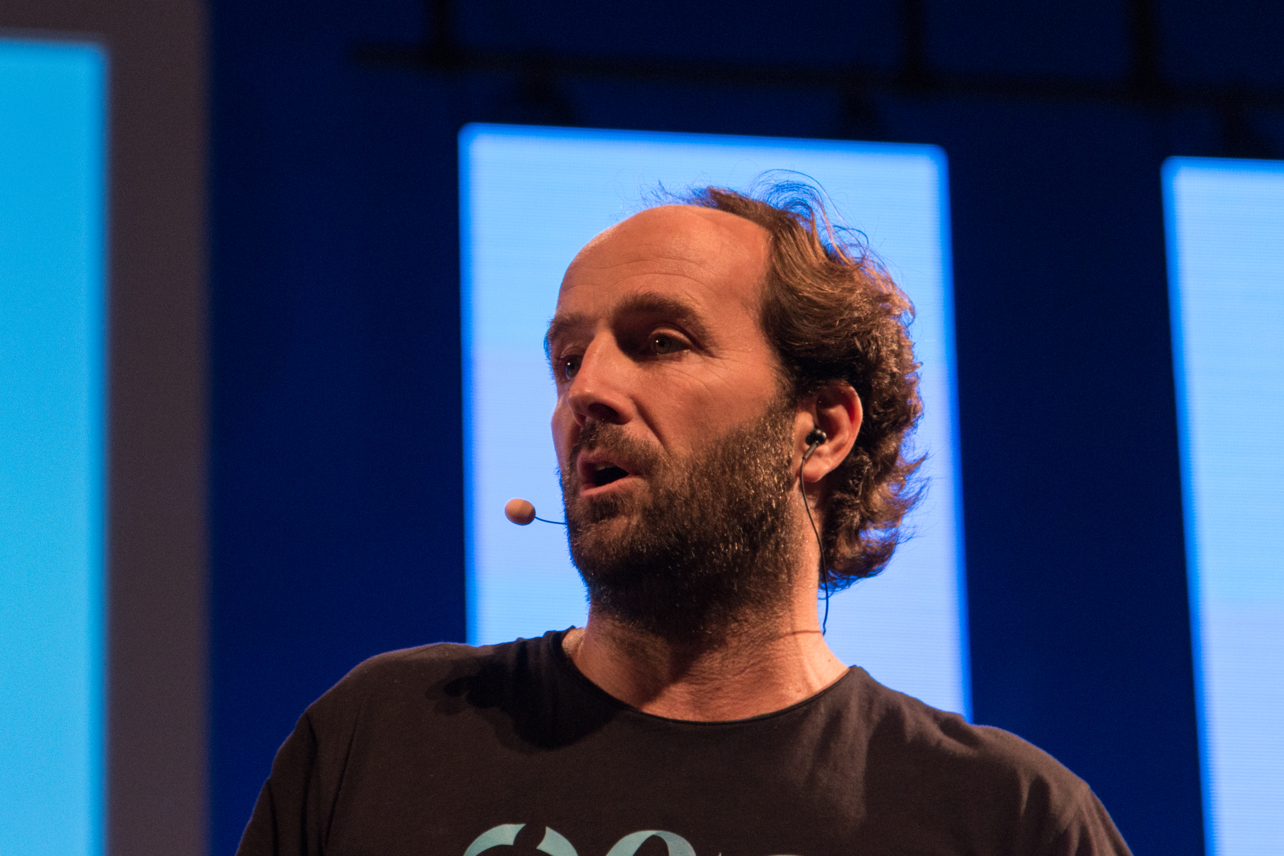 David Jones (Global CEO, Havas) at the 2014 One Young World Conference in Dublin, Ireland.